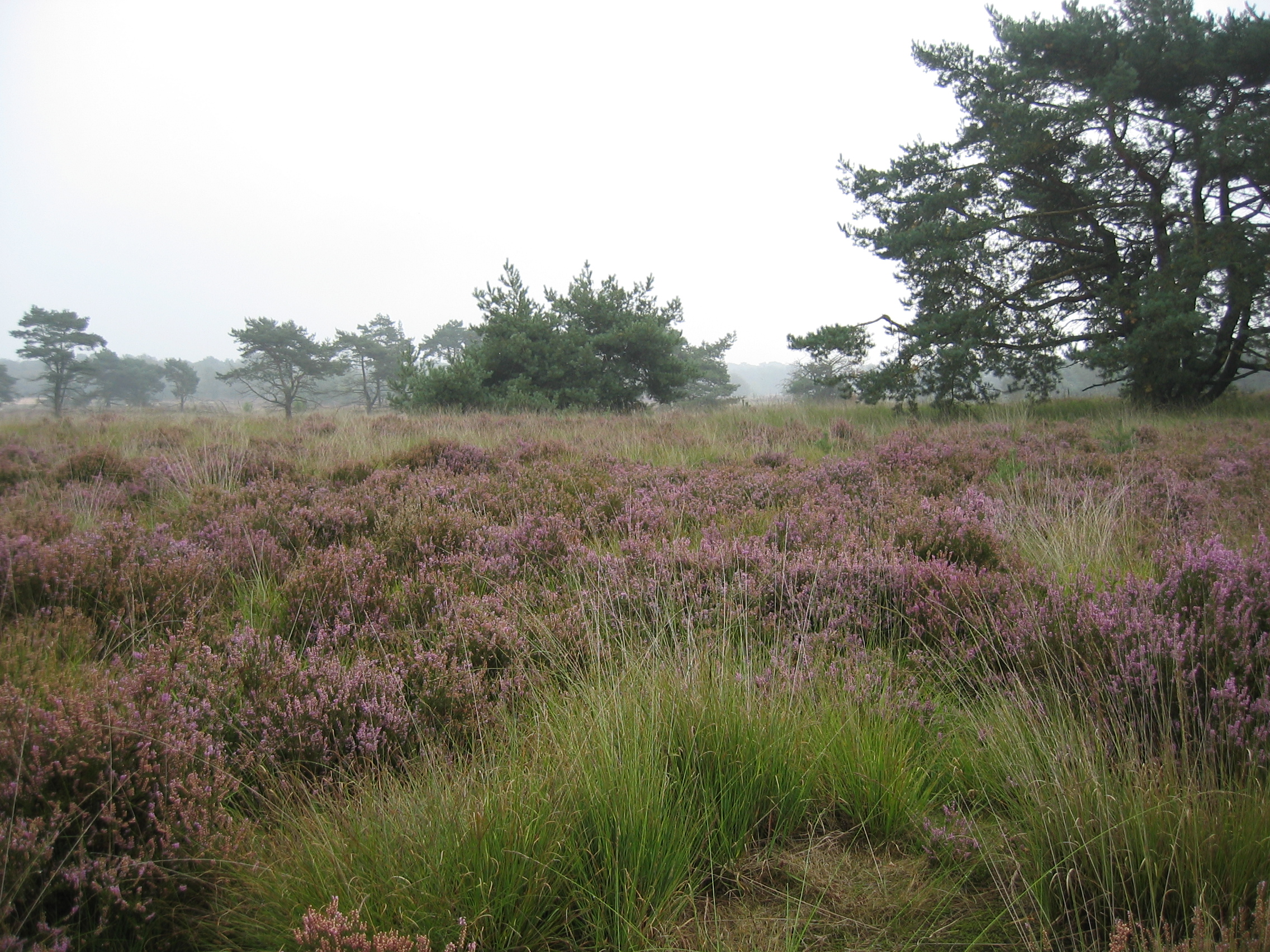 View of the heath of Kalmthout (Kalmthoutse heide). Picture taken by Tim Bekaert (September 11, 2005).